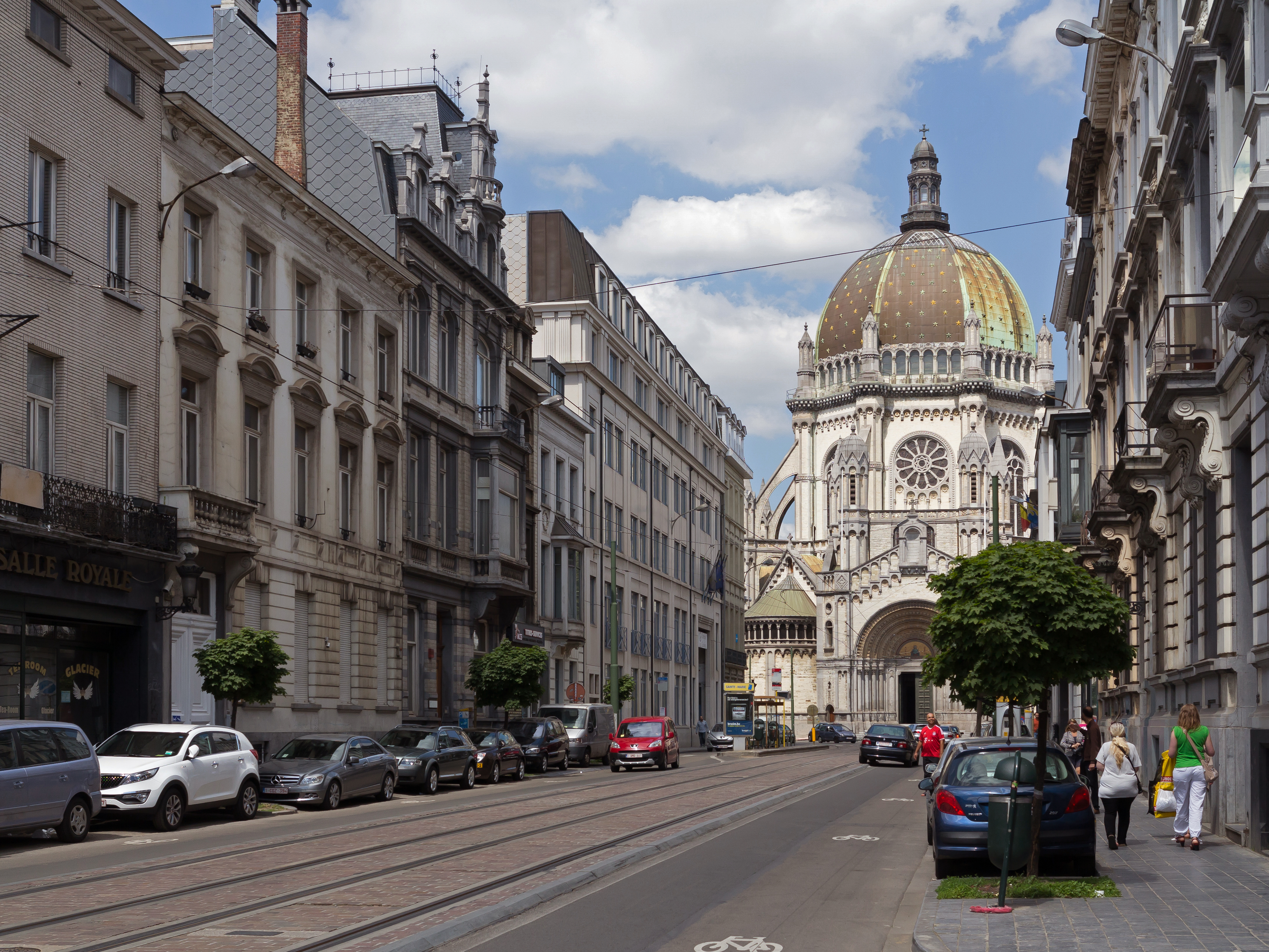 Brussels-Schaerbeek, church: église Royale Sainte-Marie